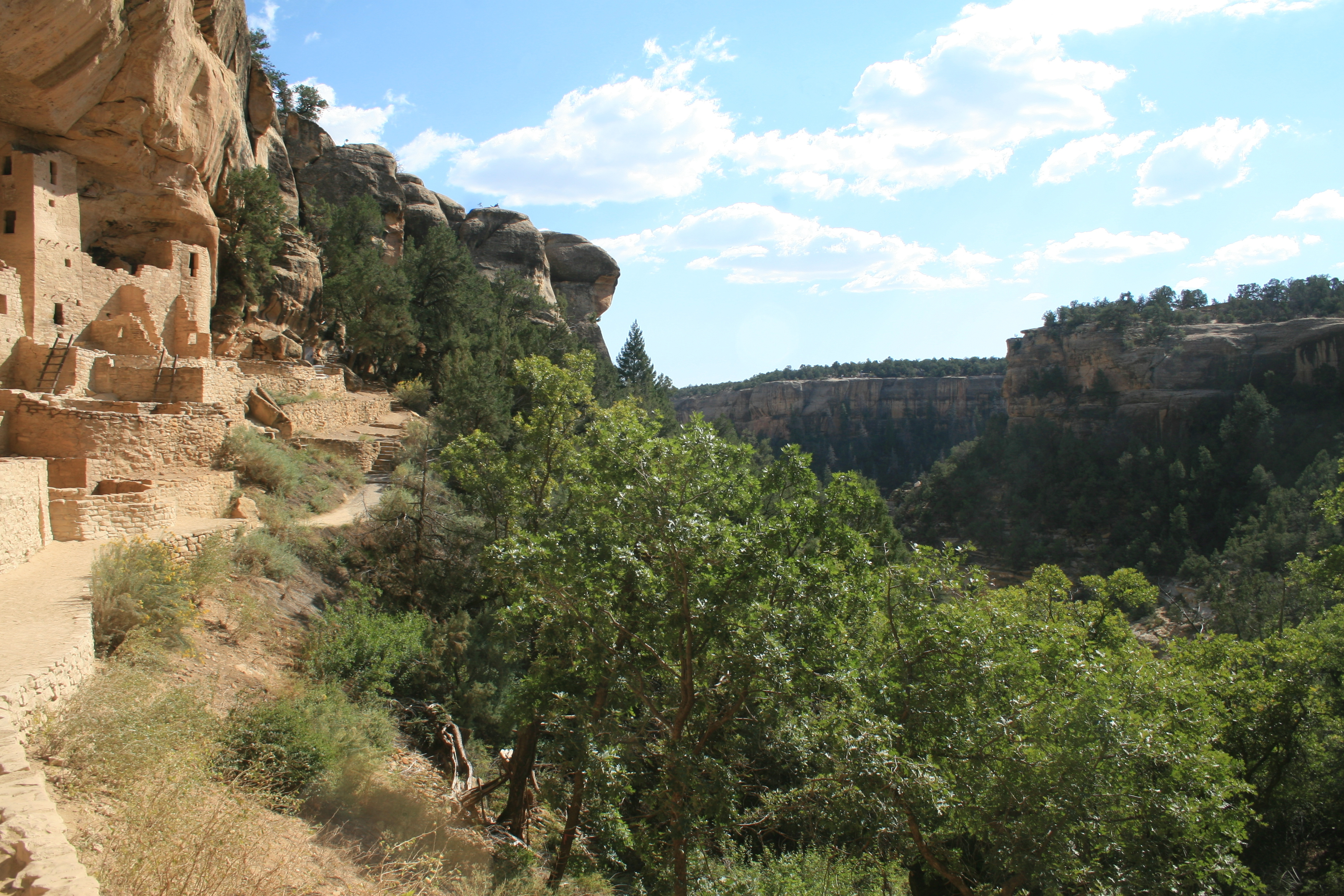 Mesa Verde National Park, Colorado Cliff Canyon, as seen from the Cliff Palace. In the background, the Fewkes Canyon joins the Cliff Canyon from the right side.